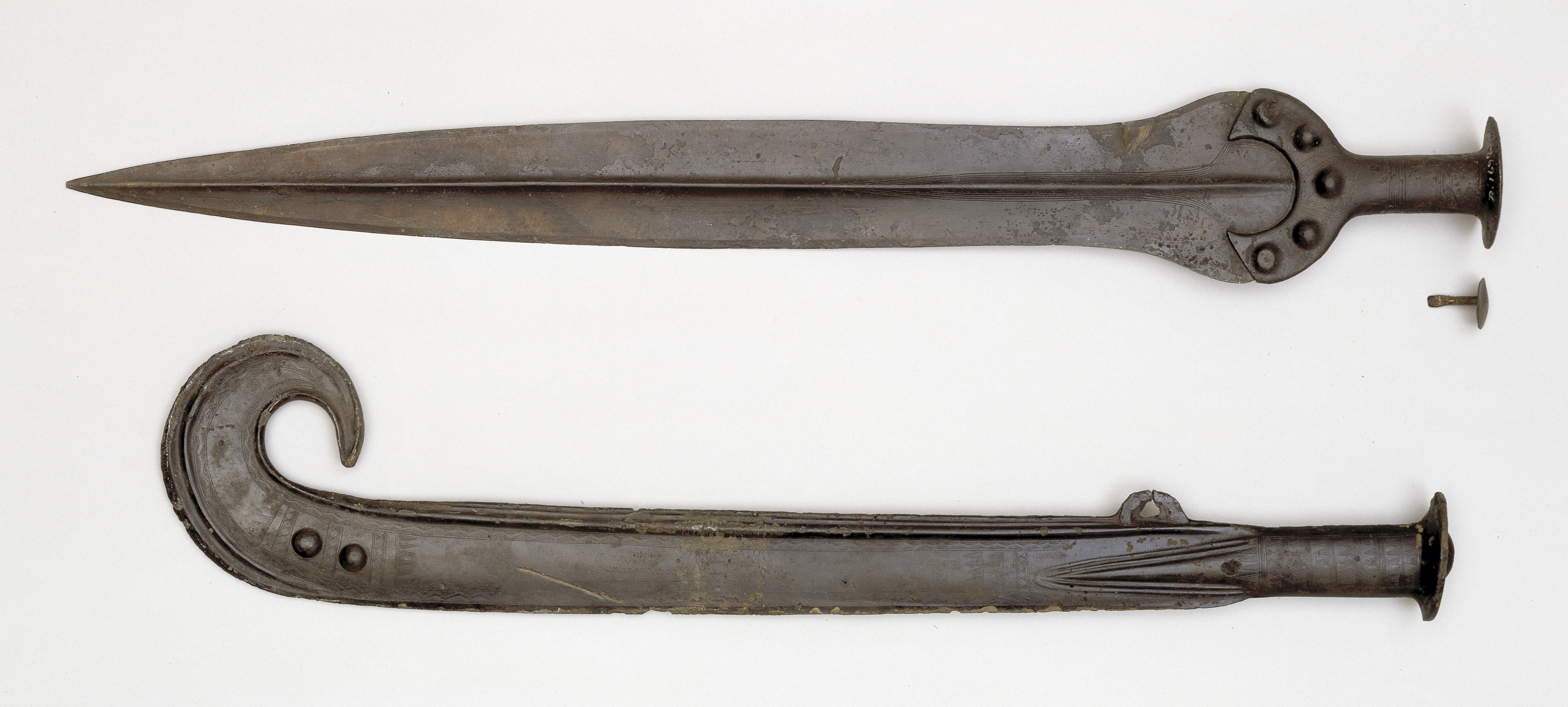 Bronze Age swords: Apa-type and krum sword fron Denmark (B 1698; B 14174)